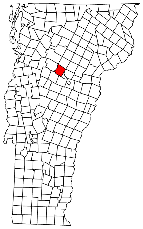 Description: Map of Vermont towns with Middlesex highlighted Source: Map created by Jared C. Benedict on 26 March 2004. Copyright: © Jared C. Benedict.